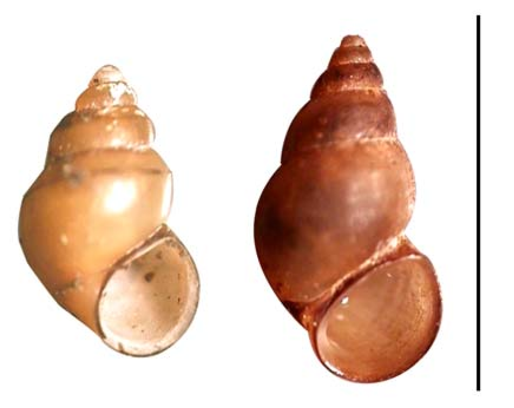 shells of Potamopyrgus antipodarum f. carinata (left) and Potamopyrgus antipodarum (right). Locality: Baltic Sea (Hanko Penninsula coast, area of Tvarminne Zoological Station, Finland). Scale bar is 0.5 cm.